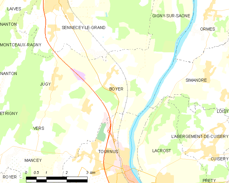 Map of French municipality